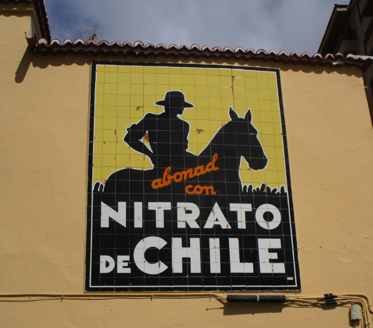 fertilize with Chile salpeter